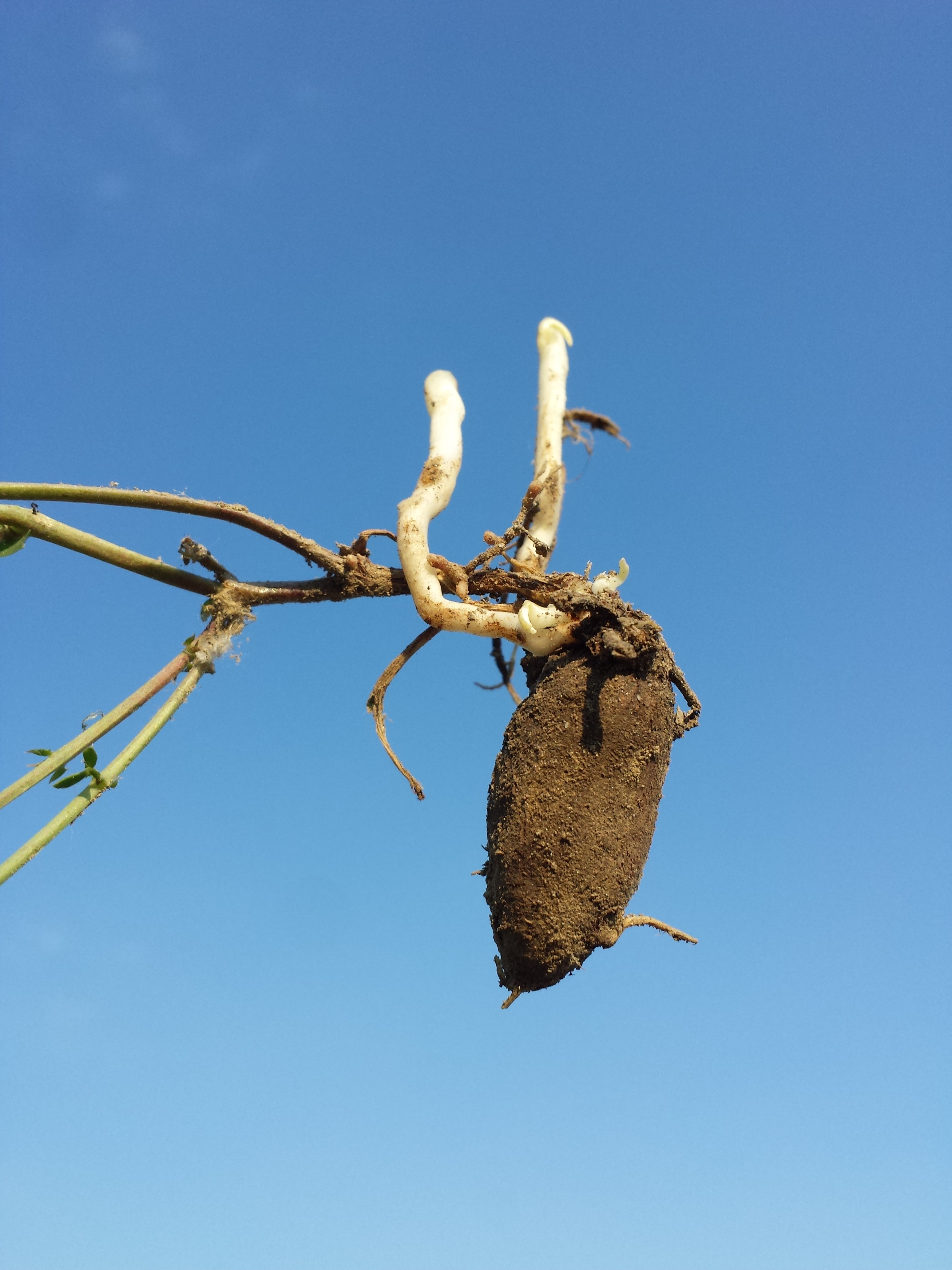 Tuber Taxonym: Lathyrus tuberosus ss Fischer et al. EfÖLS 2008 ISBN 978-3-85474-187-9 Location: next to Korneuburg, district Korneuburg, Lower Austria - ca. 170 m a.s.l. Habitat: ruderal area